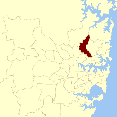 Location of the New South Wales Legislative Assembly electoral district within Sydney in New South Wales. Reference: [1]